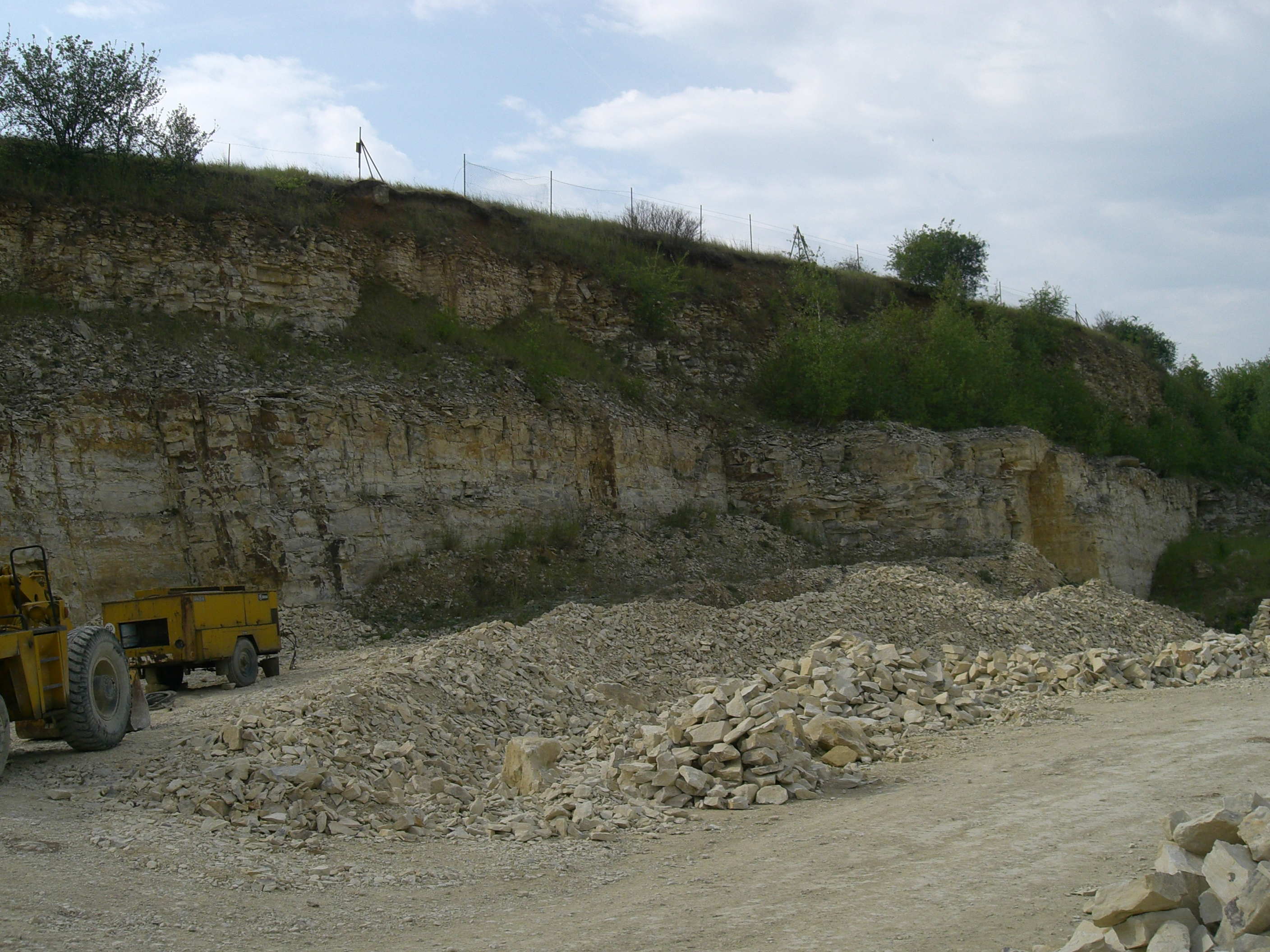 Opuka mine near Přední Kopaniny, Czech Republic.